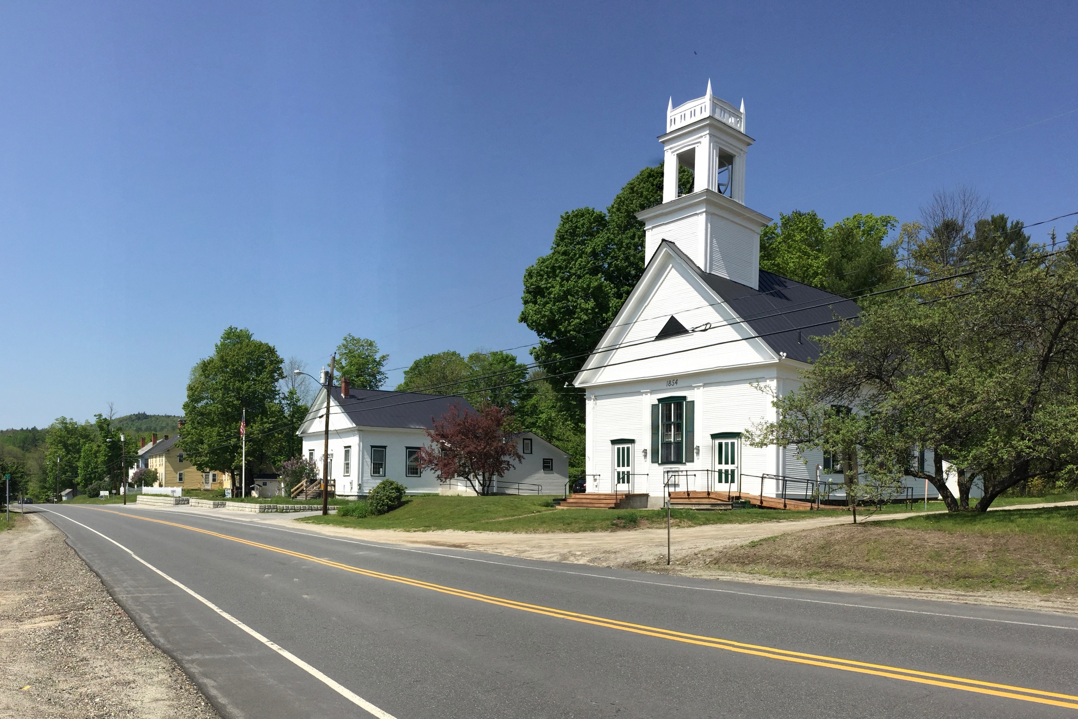 Center of Croydon, New Hampshire, May 2016